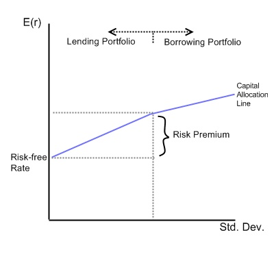 Shows the capital allocation line